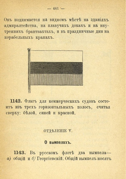 Article 1142 of the Maritime Regulations of the Russian Empire of 1885, including a monochrome image of a tricolour (white, blue, and red) flag